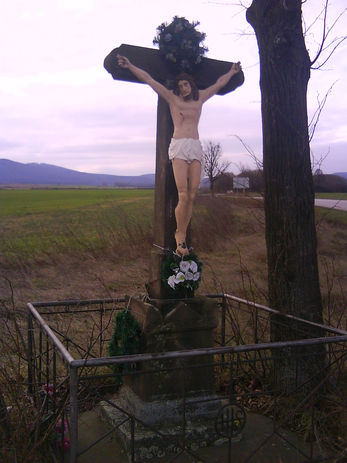 Stone cross near crossroads in Albinov, part of town Sečovce